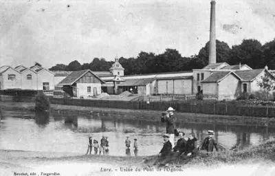 It's an old post card who show old factory near the Ognon